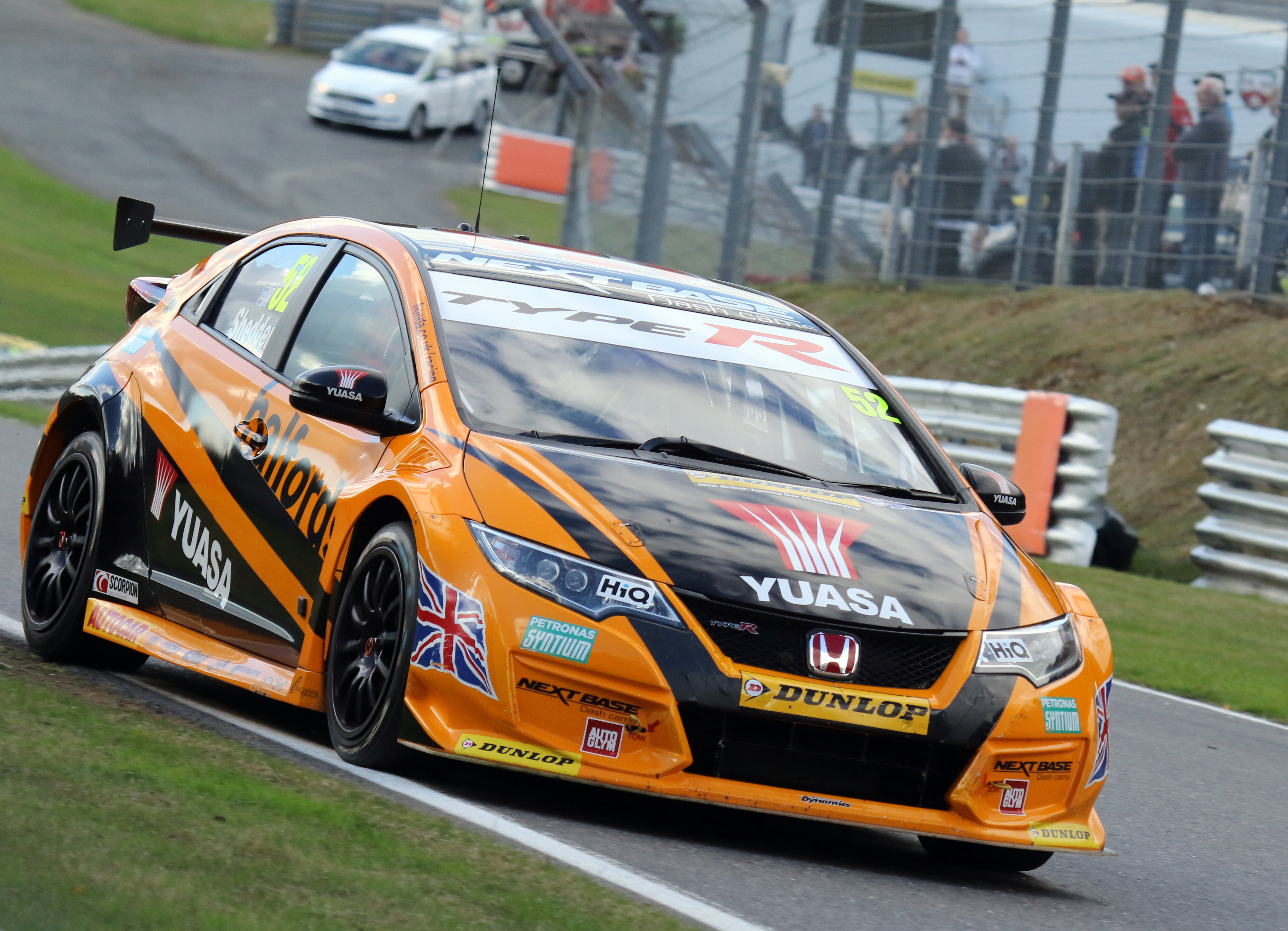 2016 British Touring Car Championship, Brands Hatch GP.